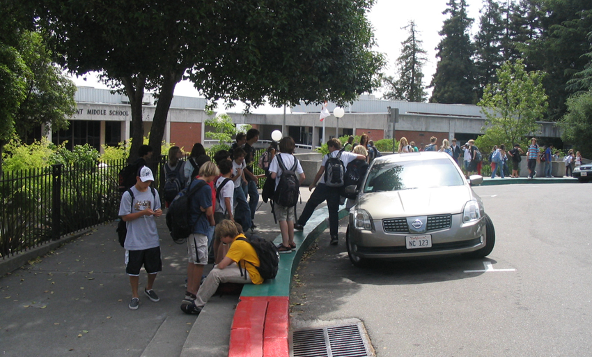 Students from Piedmont Middle School gather on the sidewalk in front of the school after school on a Friday afternoon. Photo taken May 25, 2007.